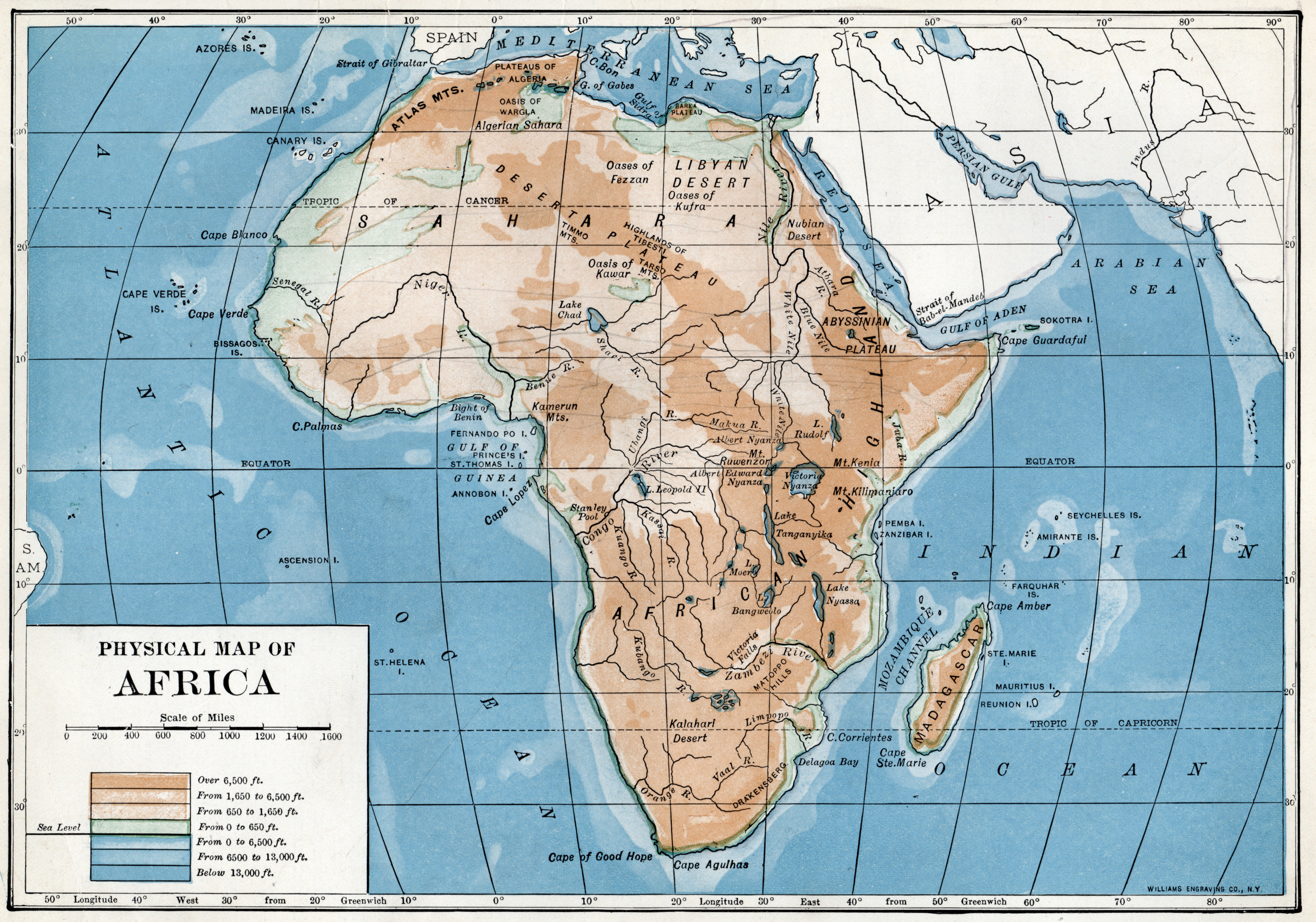 Physical map of Africa from a 1916 out-of-copyright geography textbook